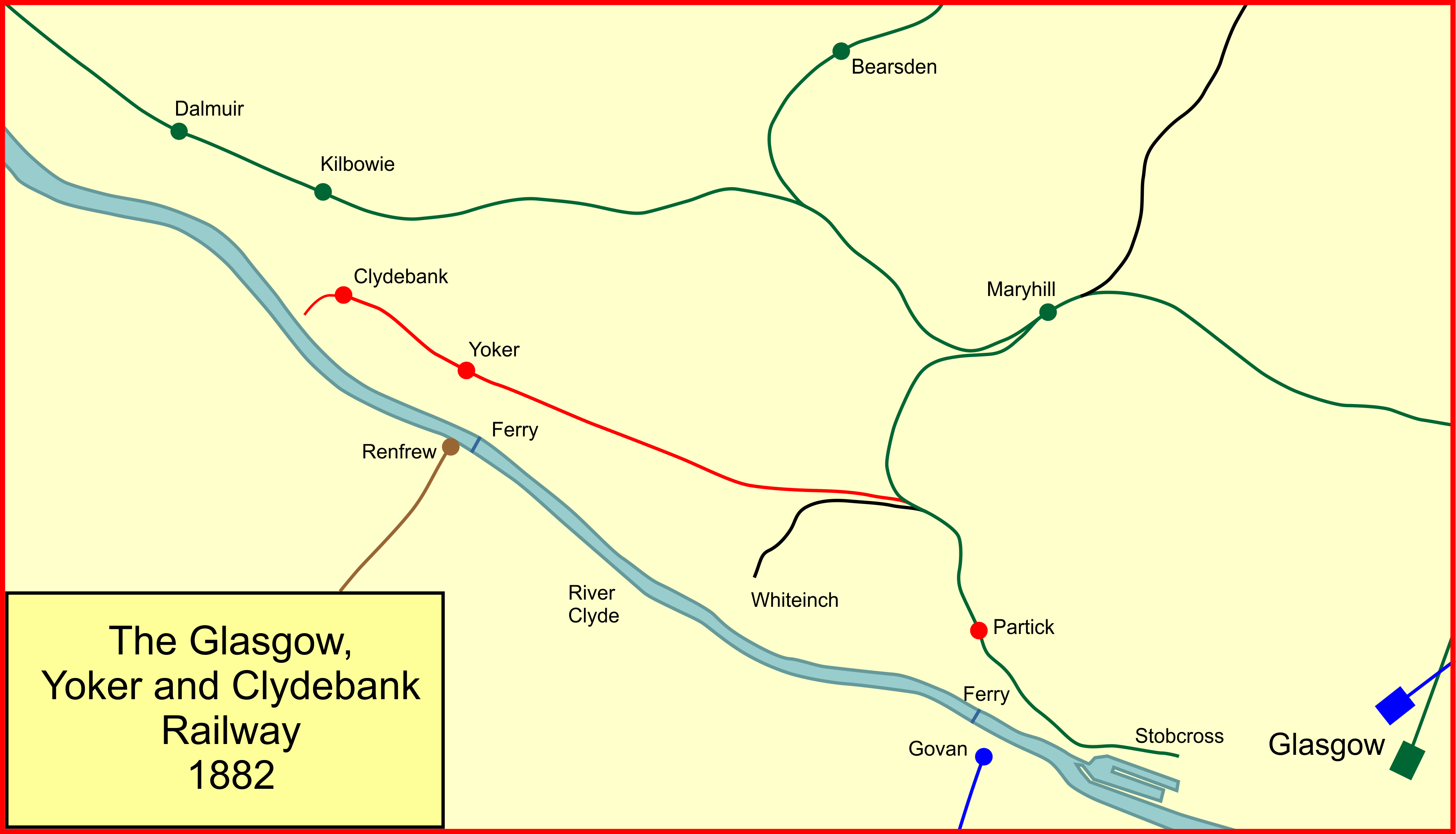 System map of the Glasgow, Yoker and Clydebank Railway, Scotland, in 1882